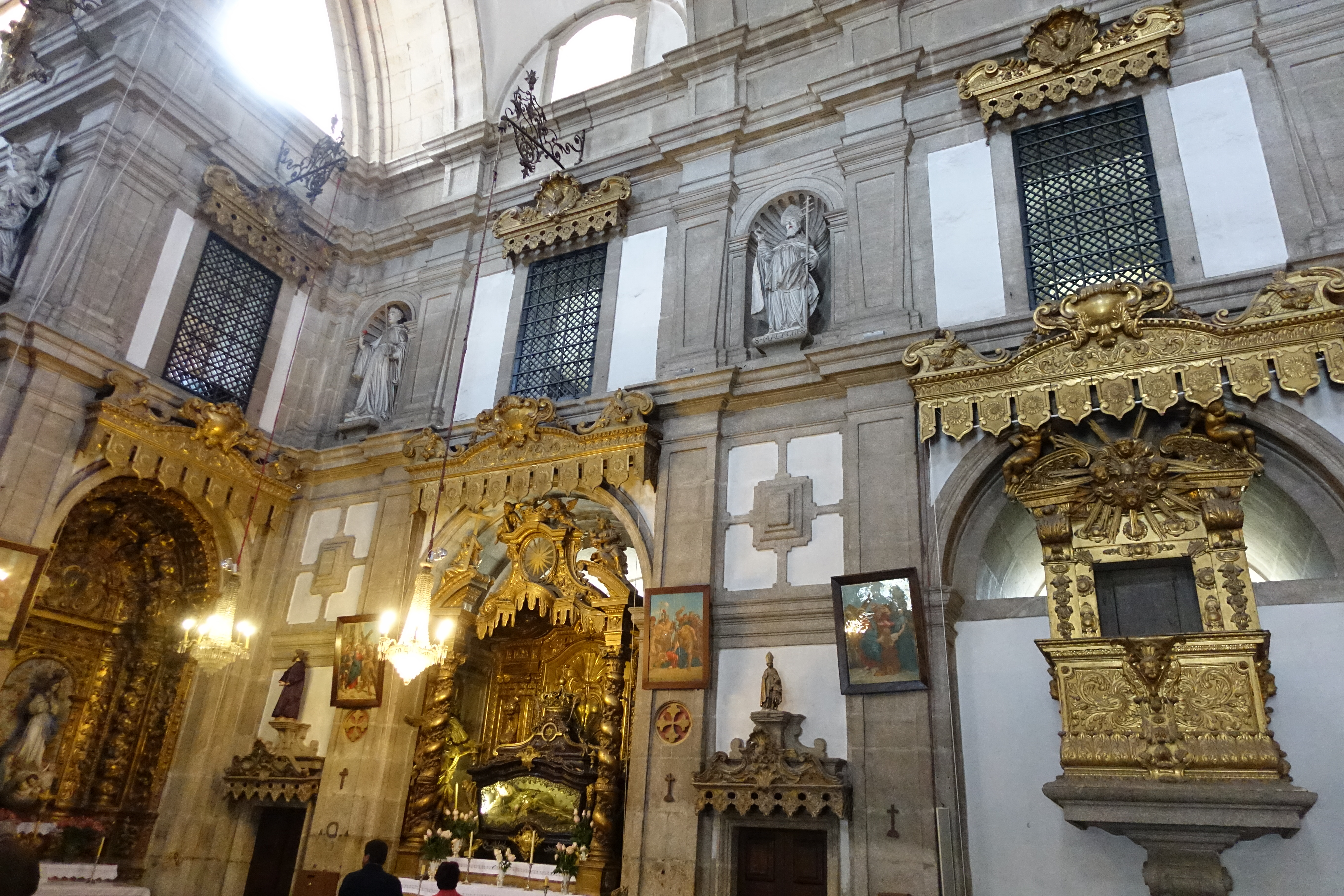 Mosteiro de Arouca in Arouca, Portugal.